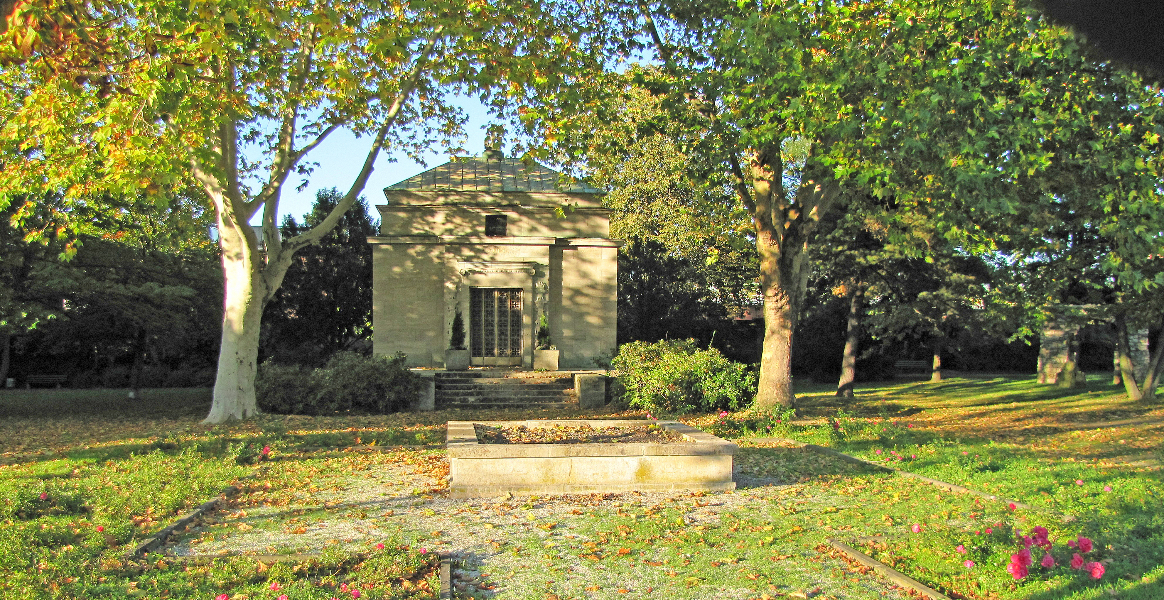 Mausoleum of Opel family in Ruesselsheim, Hesse, Germany.